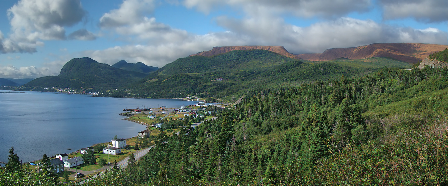 Gros Morne National Park, Western Newfoundland, Canada. Panorama seen on Route 431, overlooking Bonne Bay.